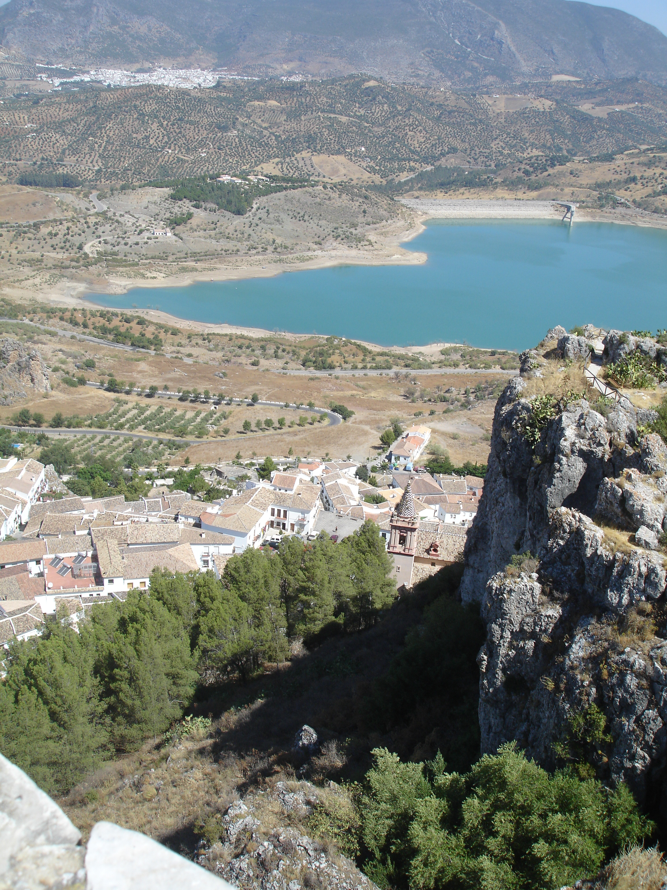 Zahara del Sierra and Algodonales from Zahara de la Sierra castle. Cádiz, Spain